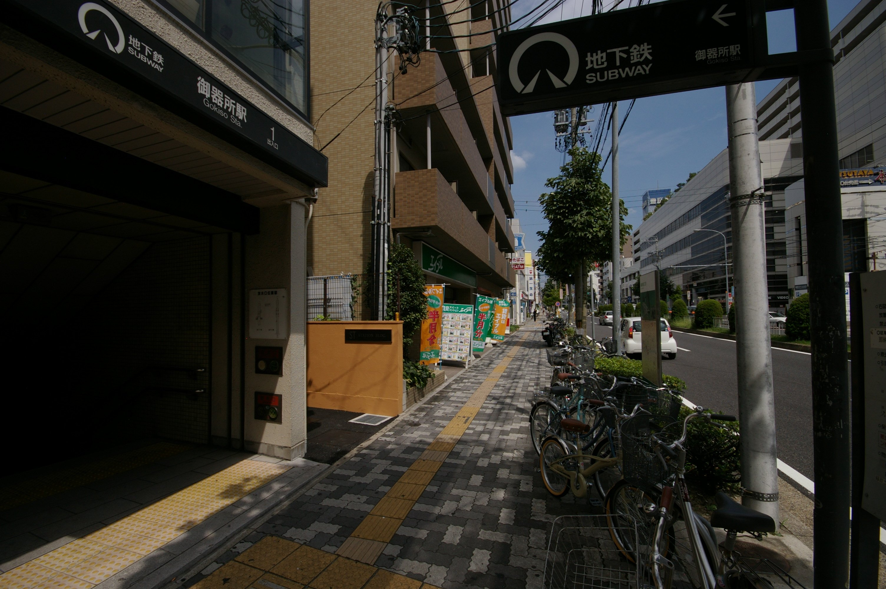 Nagoya Gokiso Subway Station